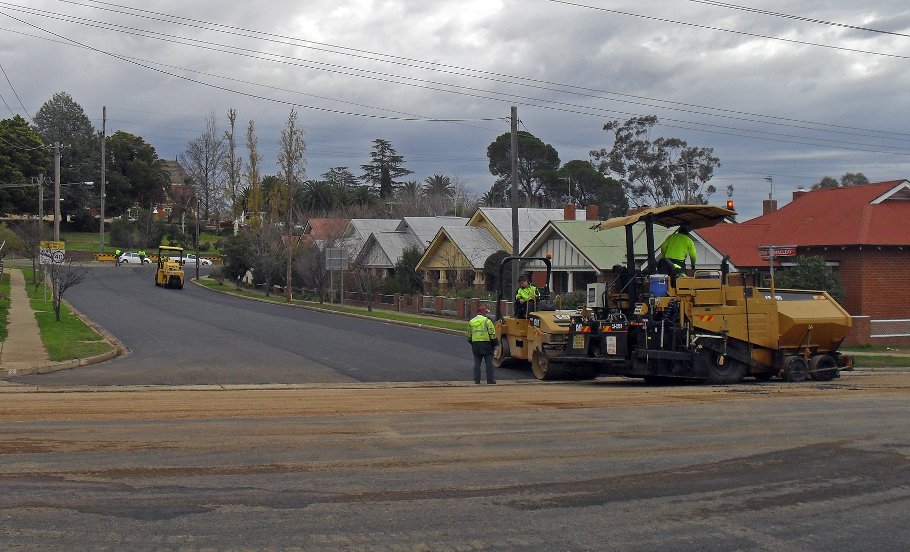 Road resurfacing of Erin and Macleay Steets in the Wagga Wagga suburb of Turvey Park.